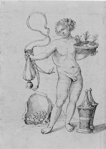 Month of July from in the Chronography of 354 by the 4th century kalligrapher Filocalus. The copies of the original illustrations are pen drawings in a 17th century manuscript from the Barberini collection (Vatican Library, cod. Barberini lat. 2154).